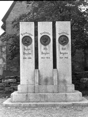 Monument in Voss Norway, to sculptor Brynjulf Bergslien, painter and sculptor Nils Bergslien and painter Knud Bergslien.